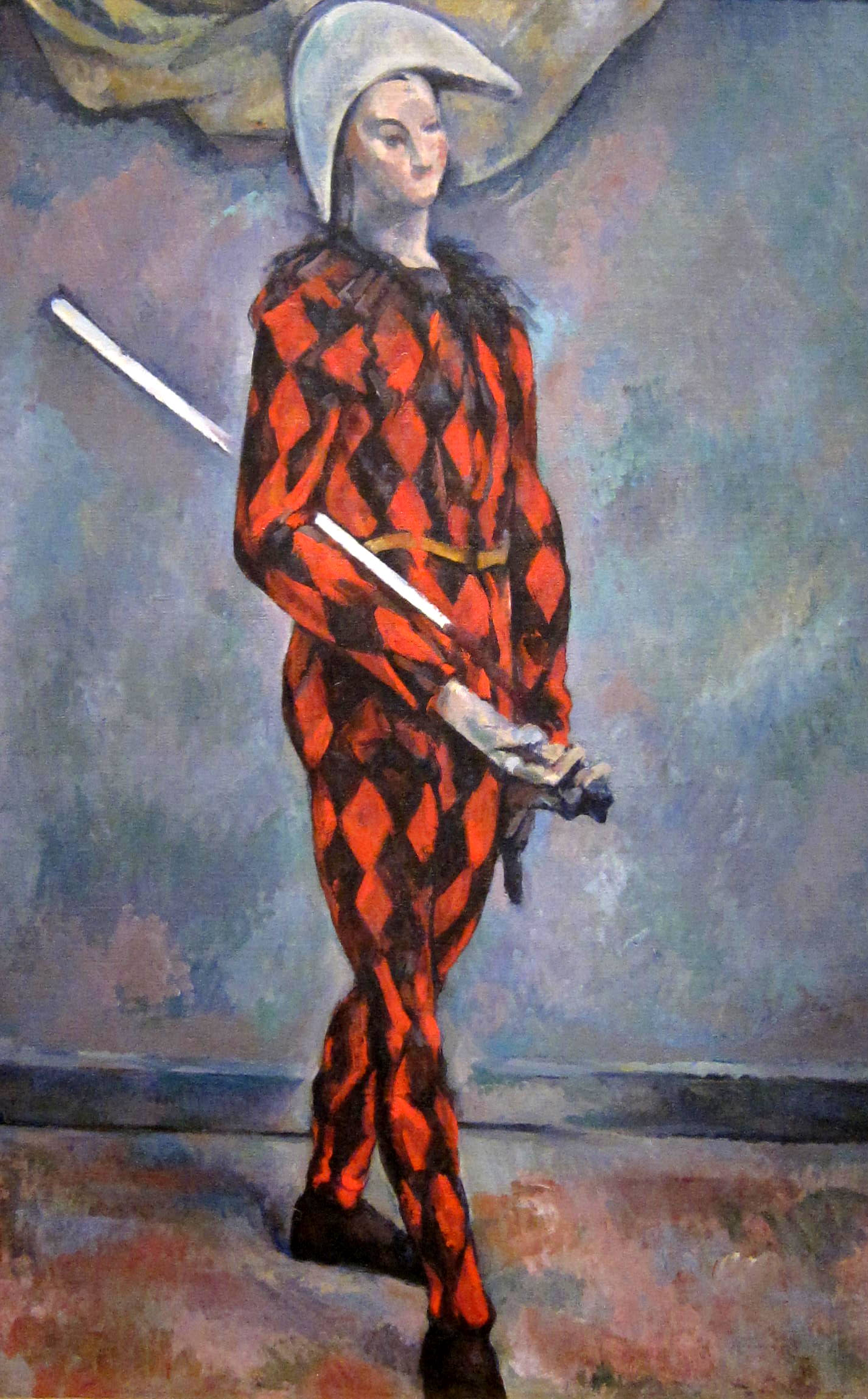 Harlequin (1888–1890, Paul Cézanne) inside the National Gallery of Art's East Building, located on the National Mall in Washington, D.C.